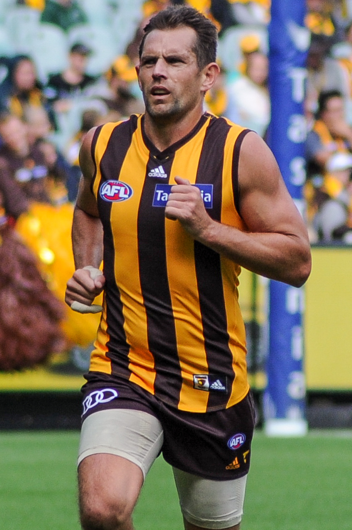 Luke Hodge during the AFL round two match between Hawthorn and Adelaide on 1 April 2017 at the Melbourne Cricket Ground in Melbourne, Victoria.